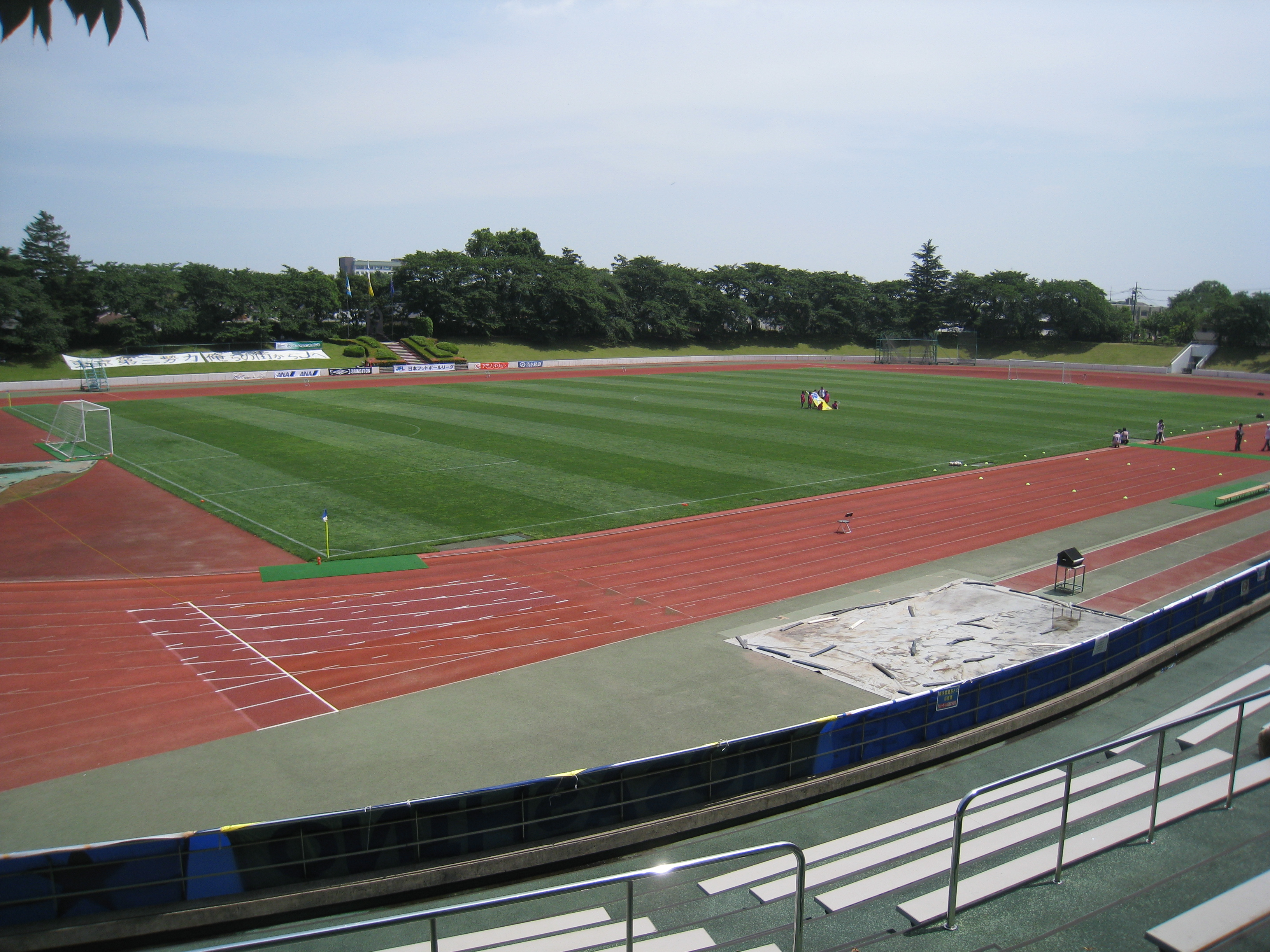 Musashino Athretic Stadium